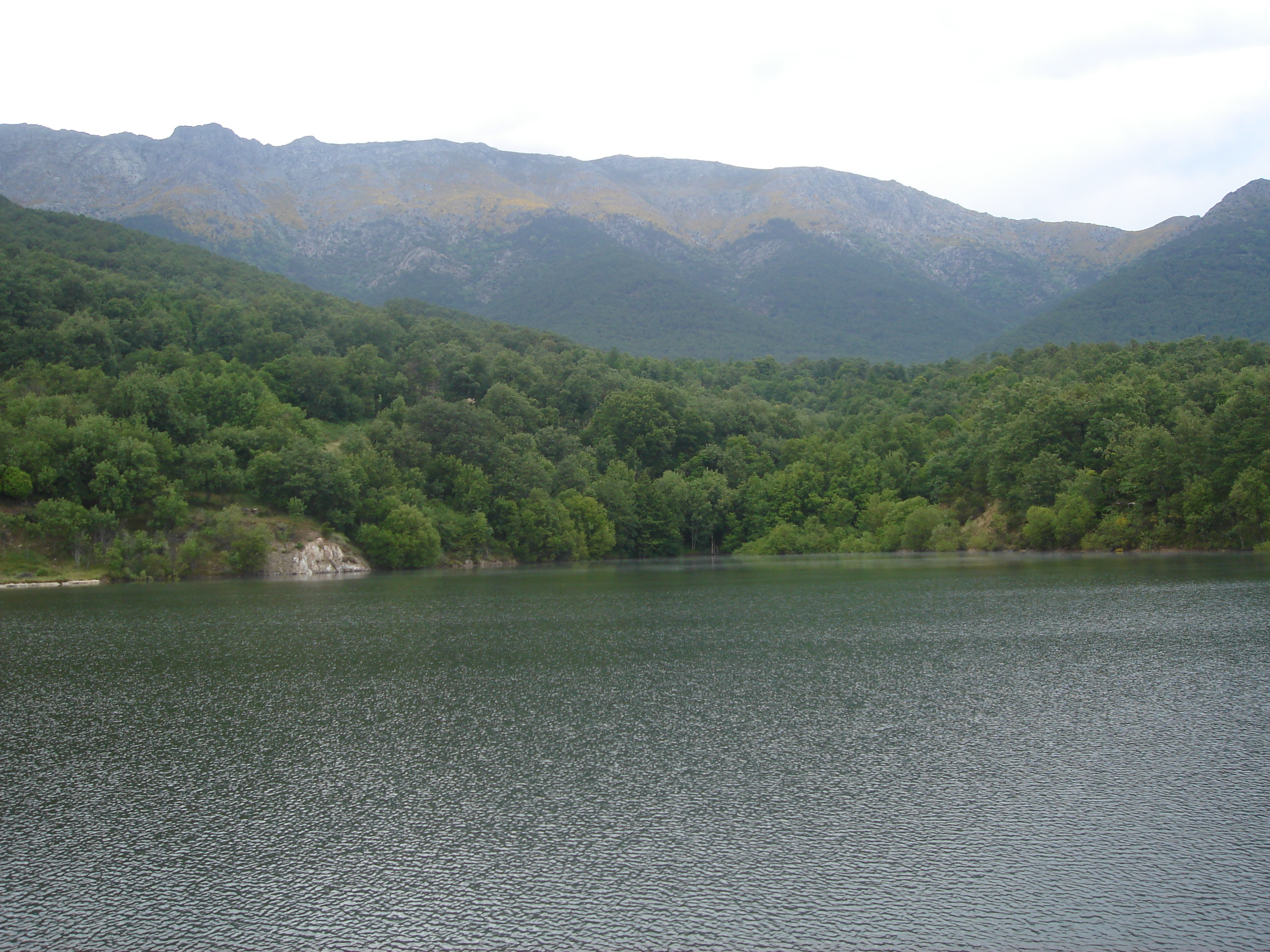 presa del castaño Casavieja